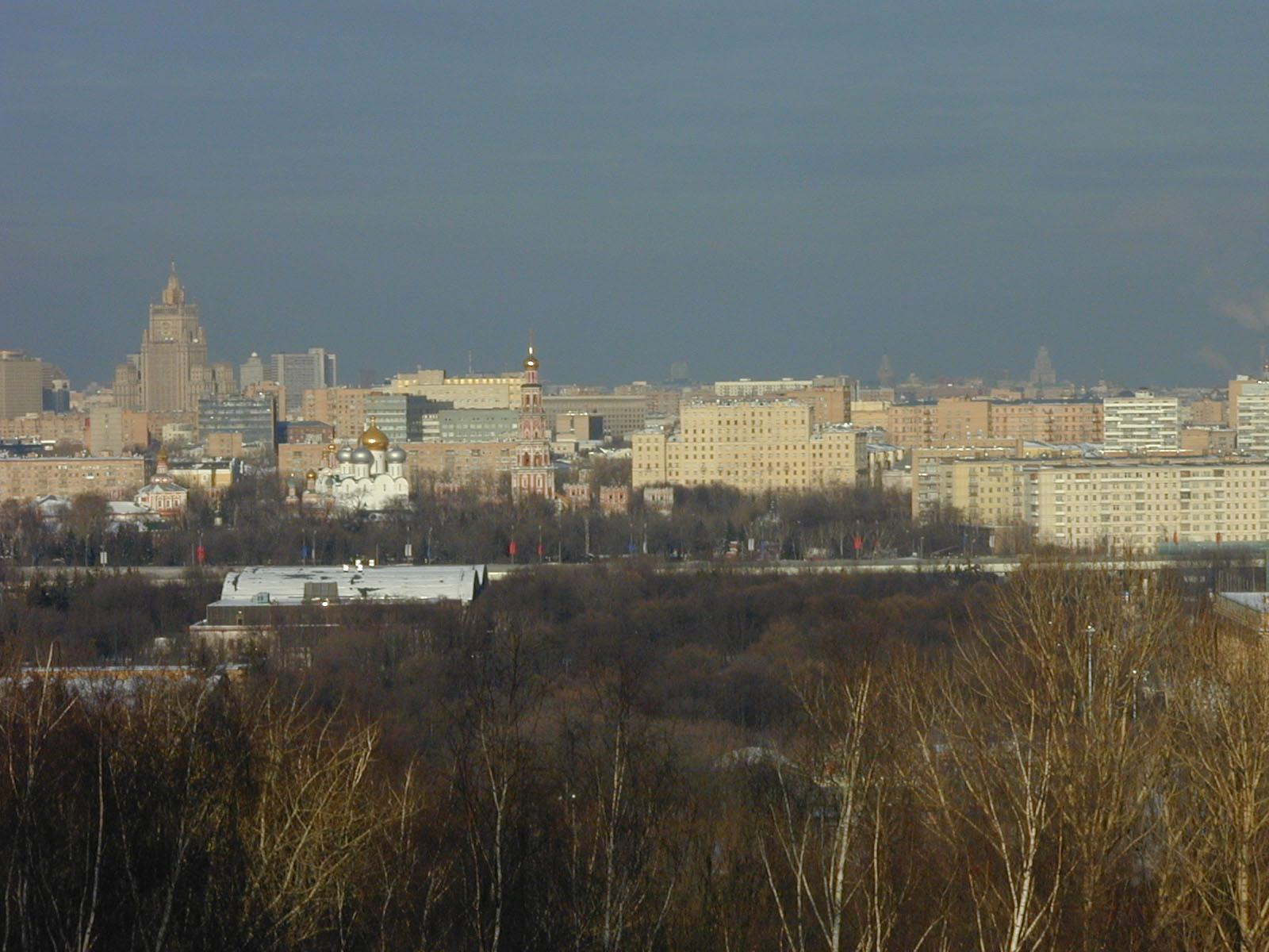 A view of Sparrow Hills and Moscow.